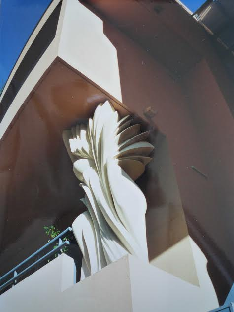 1993. Beton with fibers